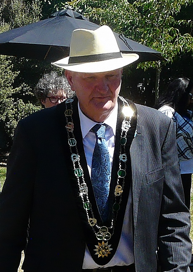 Dame Patsy and Hurunui Mayor Winton Dalley